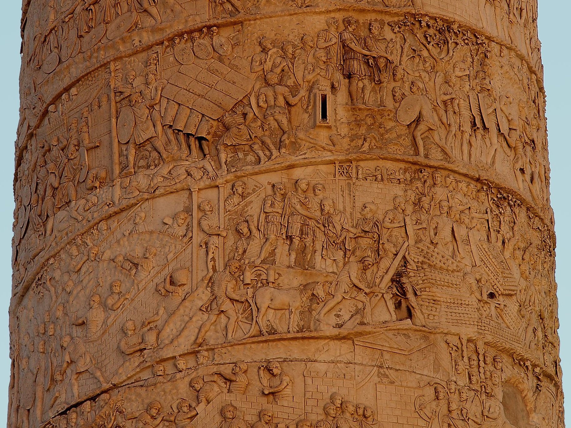 Detailed view of Trajan's column. Panorama from different images, exif taken from the middle one. Cut into pieces by user:sailko